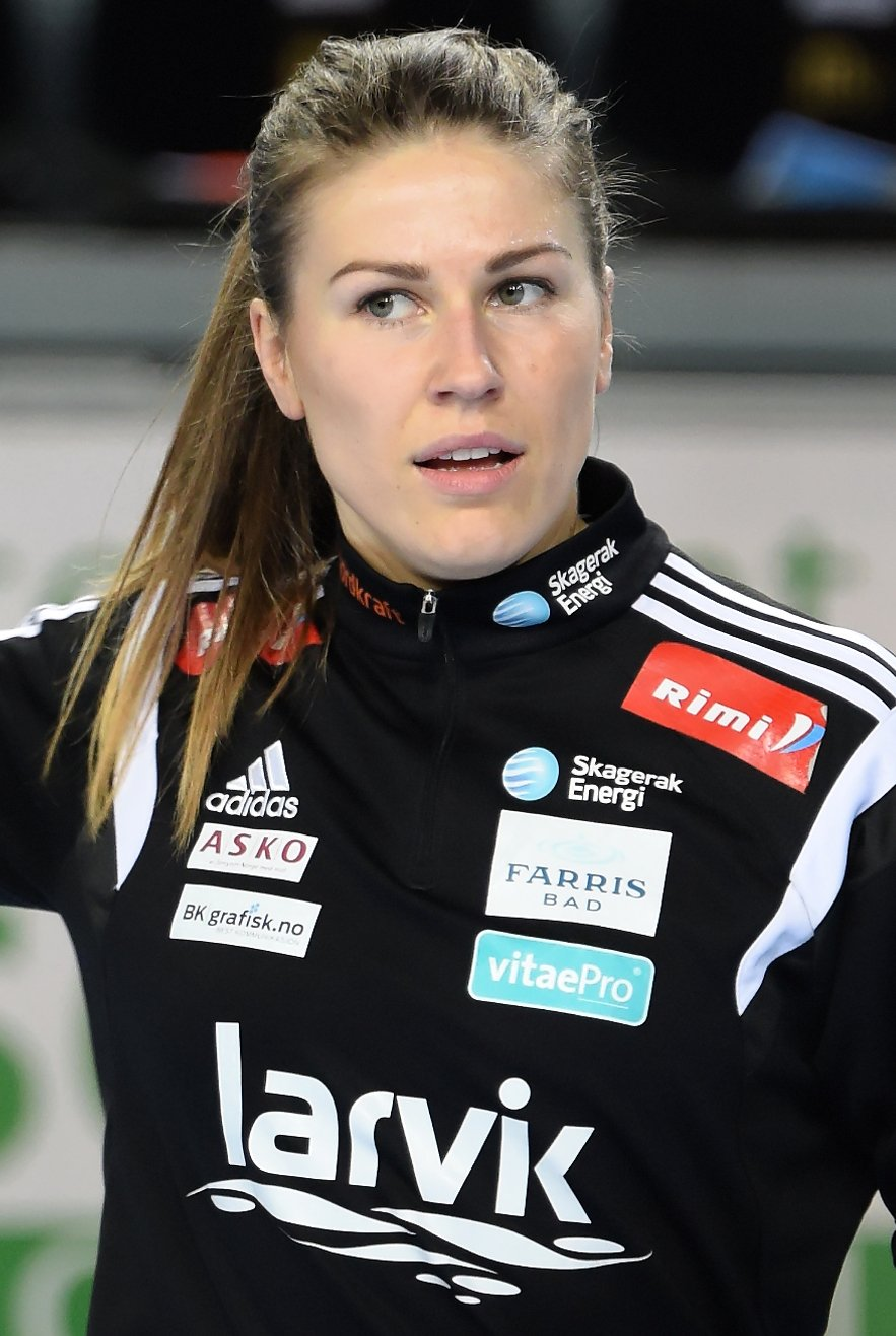 Alina Wojtas - EHF Champion's League, Metz Handball / Larvik HK - 15 november 2014.